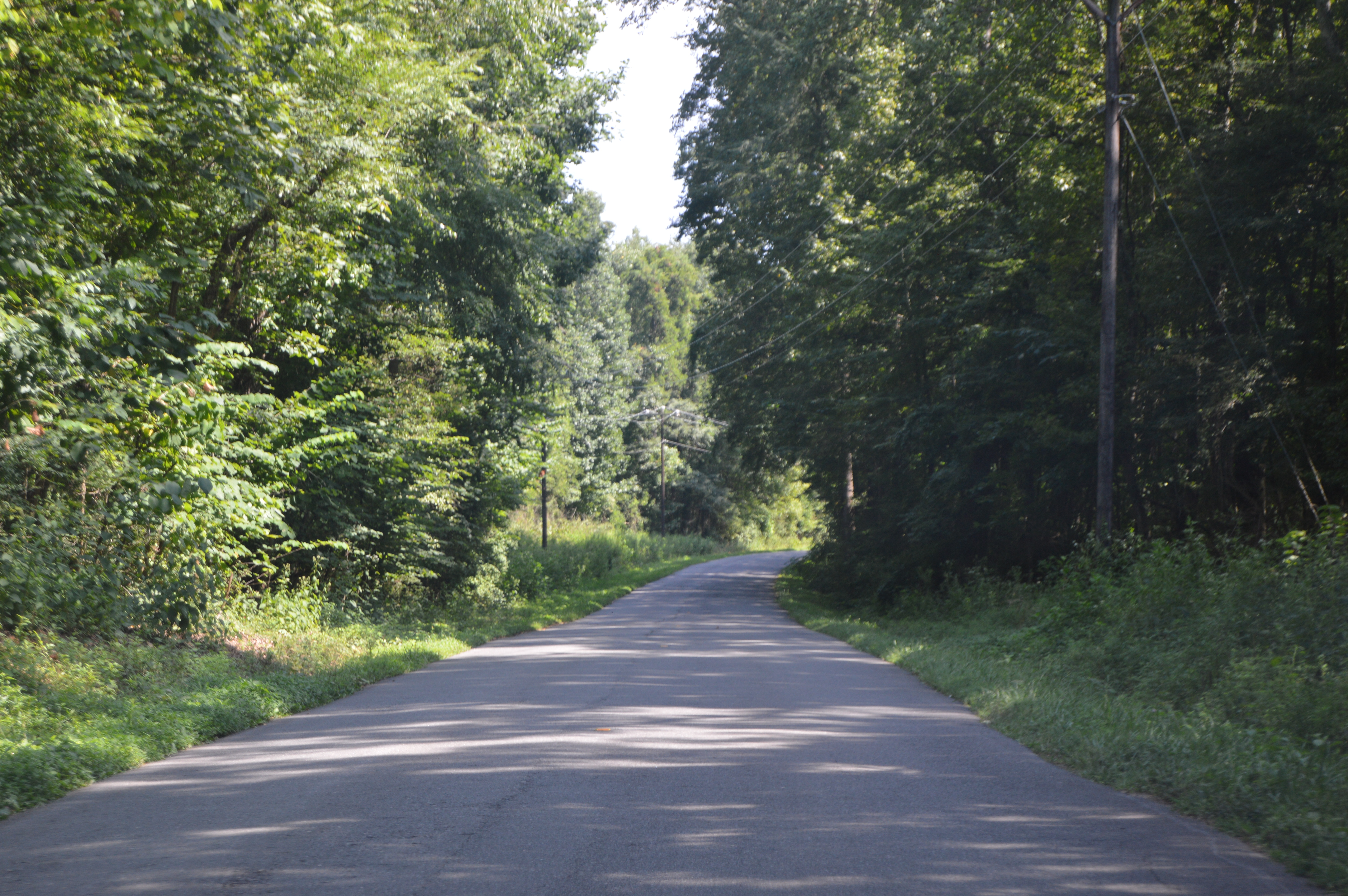 Looking south along Brickyard Road south of Fort Mill in unincorporated York County, South Carolina, United States. This section of Brickyard is part of the early Nation Ford Road, a route that is listed on the National Register of Historic Places.